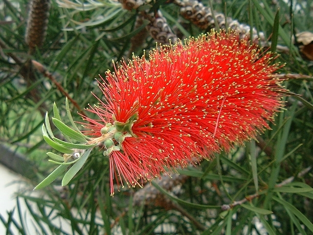 flora of Madeira